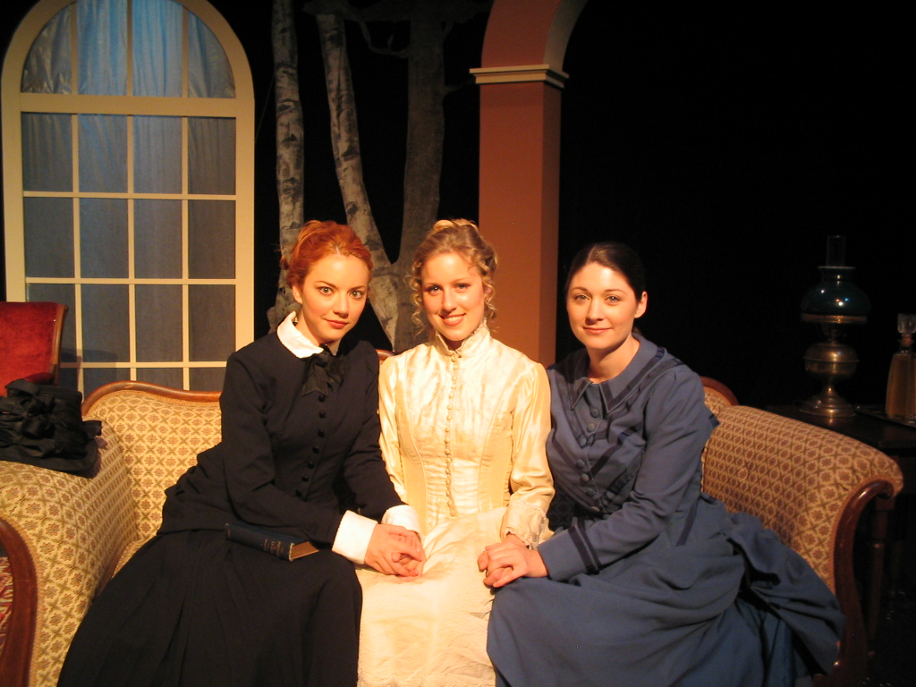 "Three Sisters" play by the Russian author and playwright Anton Pavlovich Chekhov.